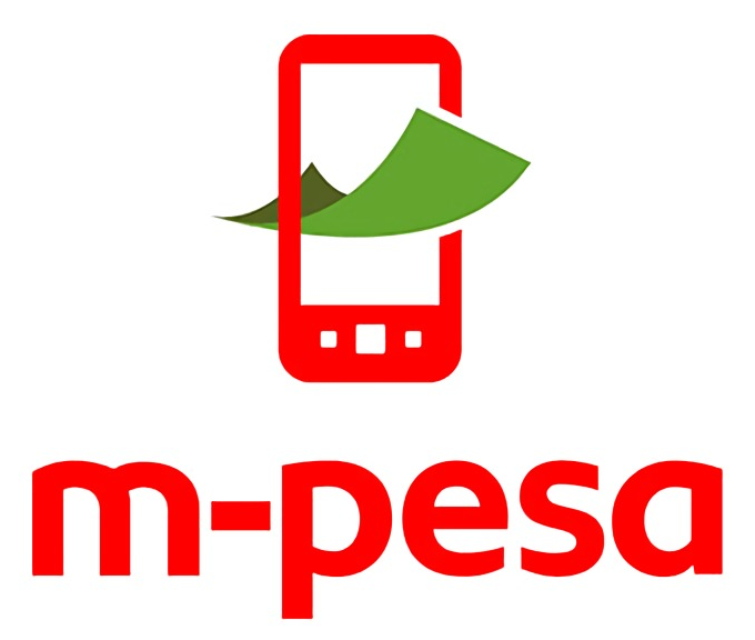 Logo for M-Pesa, a mobile money service by Vodafone.